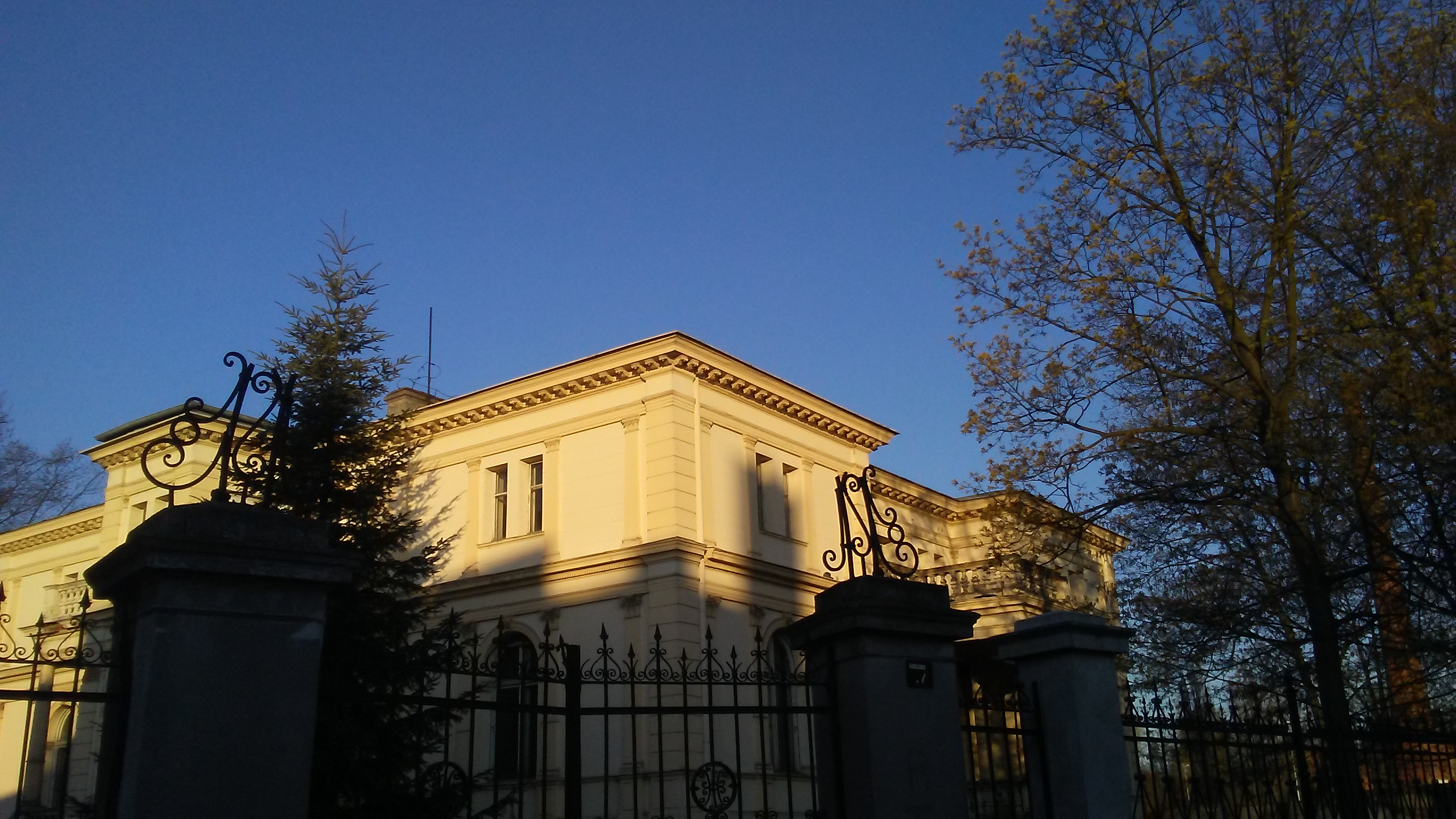 Jakub Halpern – Willa, Barlickiego Street, Tomaszów Mazowiecki, PL, EU. CC0